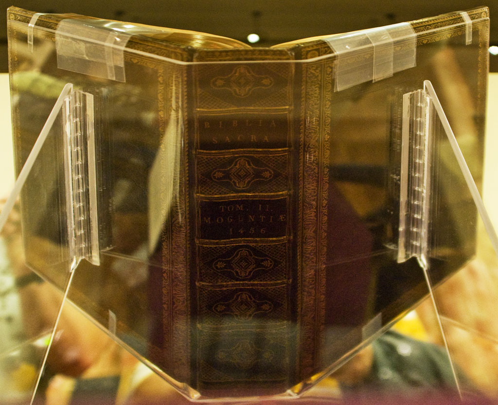 Spine of the Gutenberg Bible [Bible, Latin Vulgate. Ca. 1455]. Biblia Latina. [Mainz: Johann Gutenberg, ca. 1455]. Rare Books Division. From the Lenox Library The first substantial printed book is this royal-folio two-volume Bible, comprising nearly 1,300 pages, printed in Mainz on the central Rhine by Johann Gutenberg (ca. 1390s-1468) in the 1450s. It was probably completed between March 1455 and November of that year, when Gutenberg's bankruptcy deprived him of his printing establishment and the fruits of his achievements. The Bible epitomizes Gutenberg's triumph, arguably the greatest achievement of the second millennium. Forty-eight integral copies survive, including eleven on vellum. Perhaps some 180 copies were originally produced, including about 45 on vellum. The Lenox copy, on paper, is the first Gutenberg Bible to come to the United States, in 1847. Its arrival is the stuff of romantic national folklore. James Lenox's European agent issued Instructions for New York that the officers at the Customs House were to remove their hats on seeing it: the privilege of viewing a Gutenberg Bible is vouchsafed to few. (Excerpt from text copied from placard seen in the background